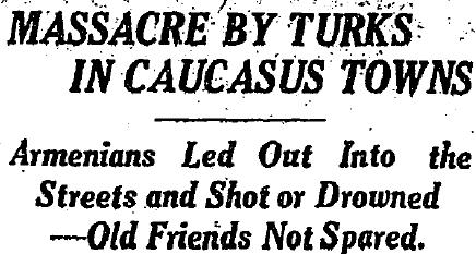 Massacre By Turks in Caucasus Towns; New York Times article headline